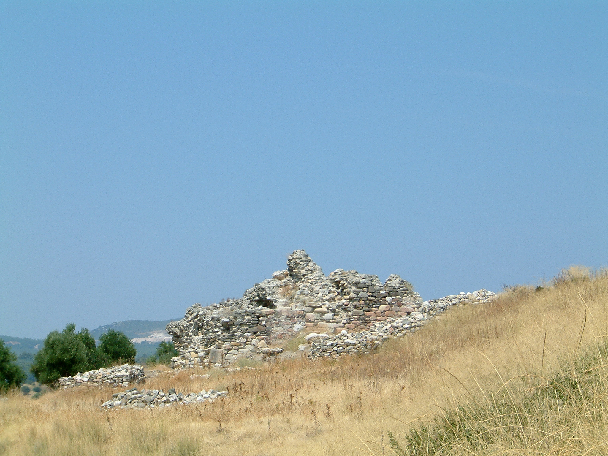 Ruins of a watchtower (possibly byzantine origin) at Pyrgos Beach, Agios Nikolaos, Chalkidiki, Greece.